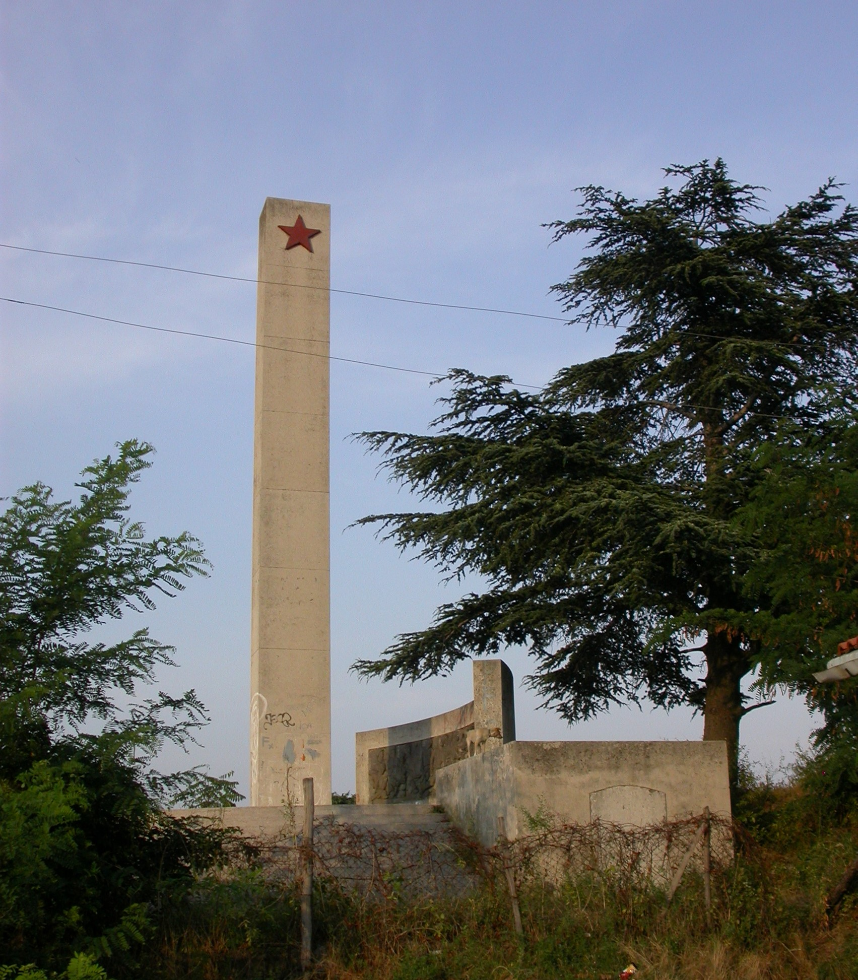 Monument in Ritopek, Grocka- Belgrade